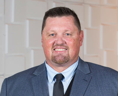 David Nilsson, retired professional baseball player and Queensland Great